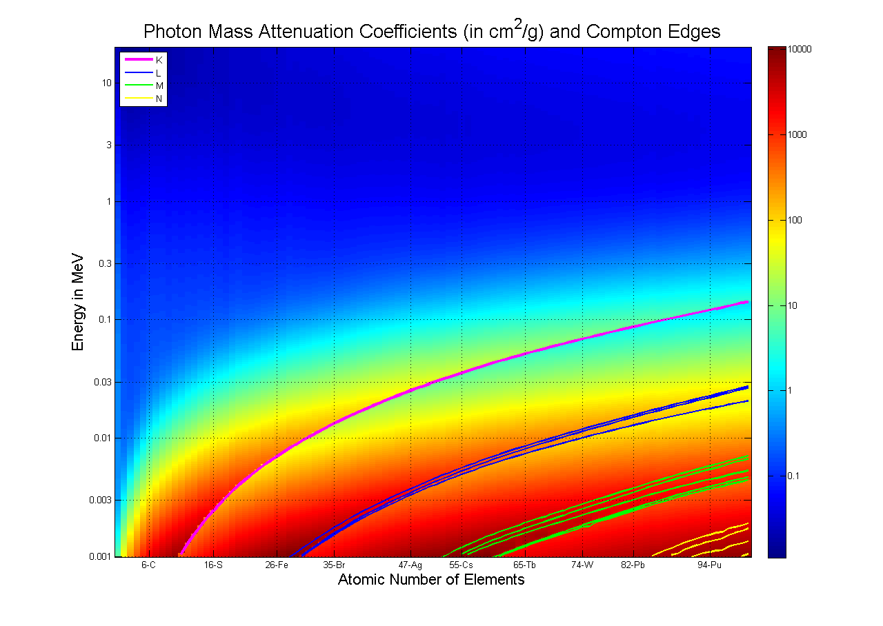 Photon Mass Attenuation Coefficient for photons in energy range from 1 keV to 20 MeV for Elements Z = 1 to 100. Based on [1]. Also shown are locations of Compton edges.